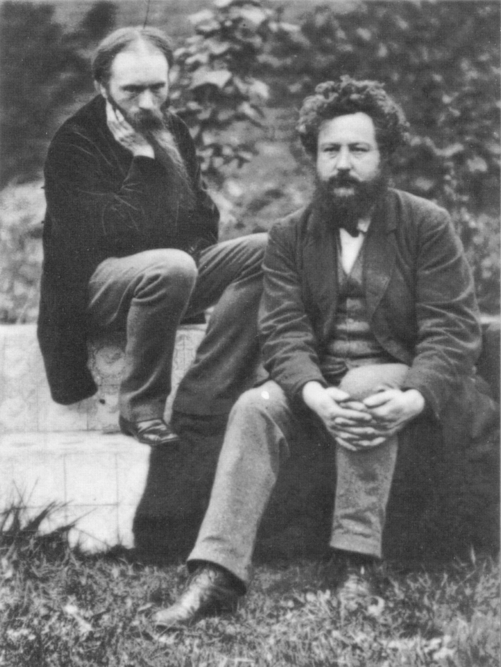 Photograph of Edward Burne-Jones (left) and William Morris (right) at the Grange, 1874